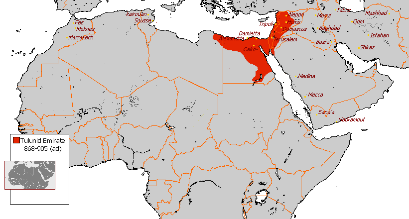 Map of the Tulunid Dynasty in the modern-day boundaries of the Arab world